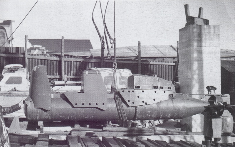 British Chariot Mark I manned torpedo, without its 700-pound charge normally attached to the front.